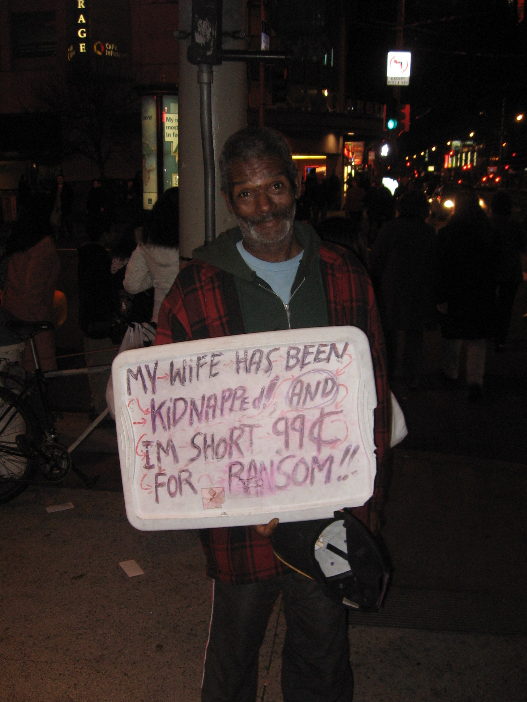 Panhandler in San Francisco, California, USA. February, 2008.